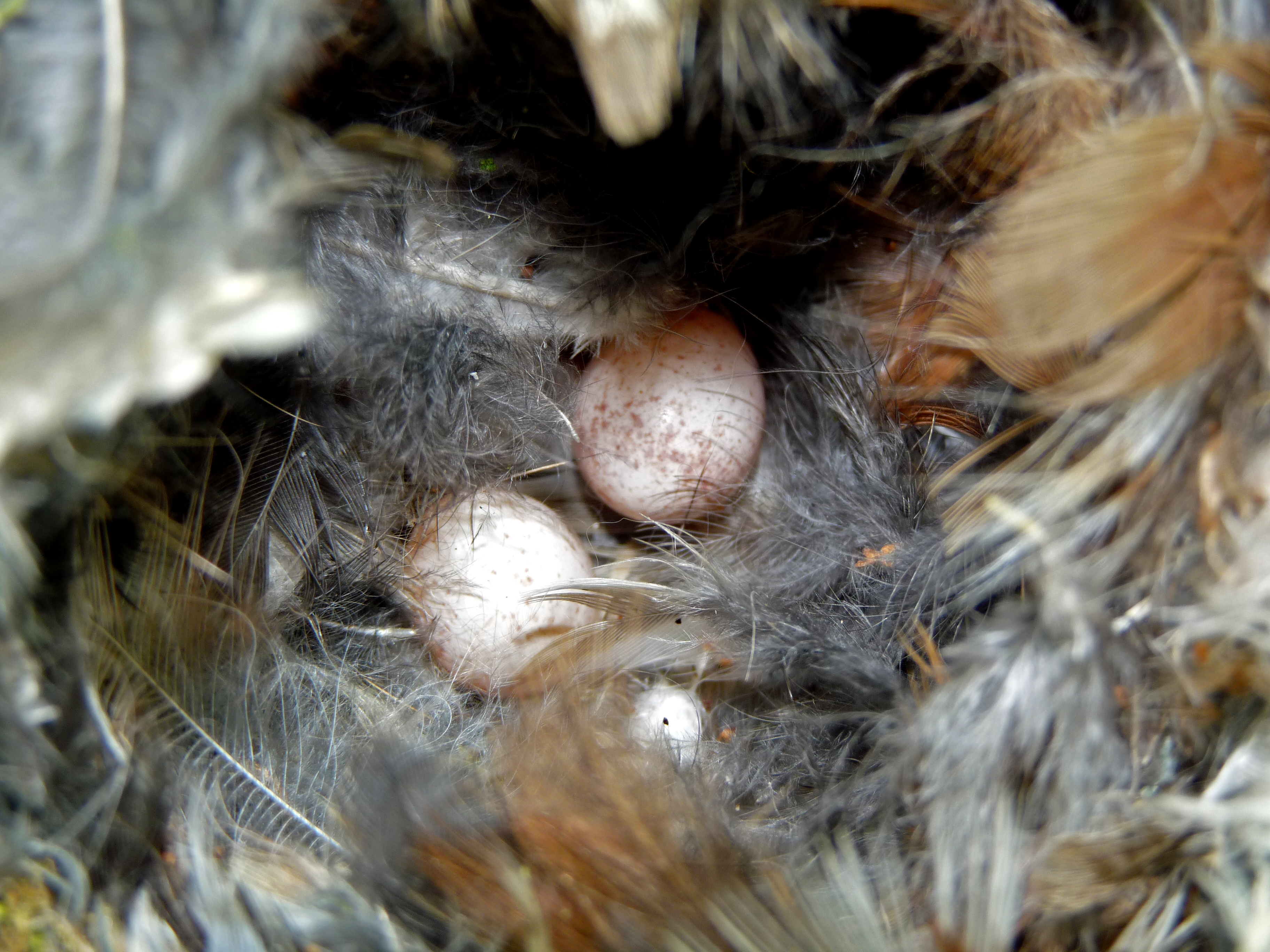 Fourth Long tailed tit nest of the year i found and it has been raided and... ... Latin name Aegithalos caudatus Family Long-tailed tits (Aegithalidae) Overview The long-tailed tit is easily recognisable with its distinctive colouring, a... Where to see them ... When to see them All year round What they eat Insects, occasionally seeds in autumn and winter